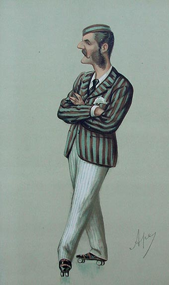 Caricature of Mr Herbert Praed MP. Caption read "The Philanthropist". Praed was a Conservative MP, fencer, roller-skater and racquet player. He worked to improve the condition of the working class. Praed Street in Paddington, London is named after him.